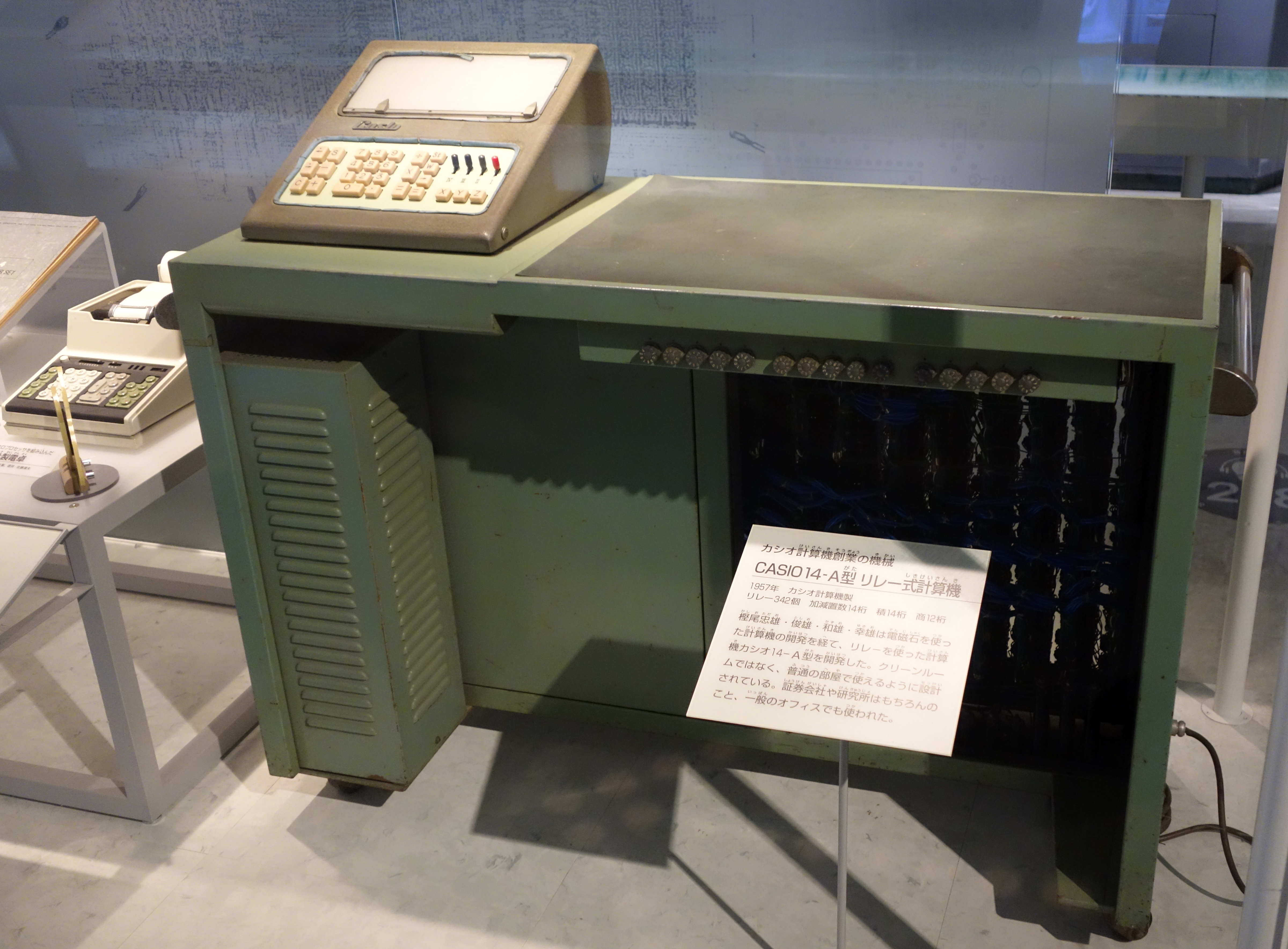 Exhibit in the National Museum of Nature and Science, Tokyo, Japan.